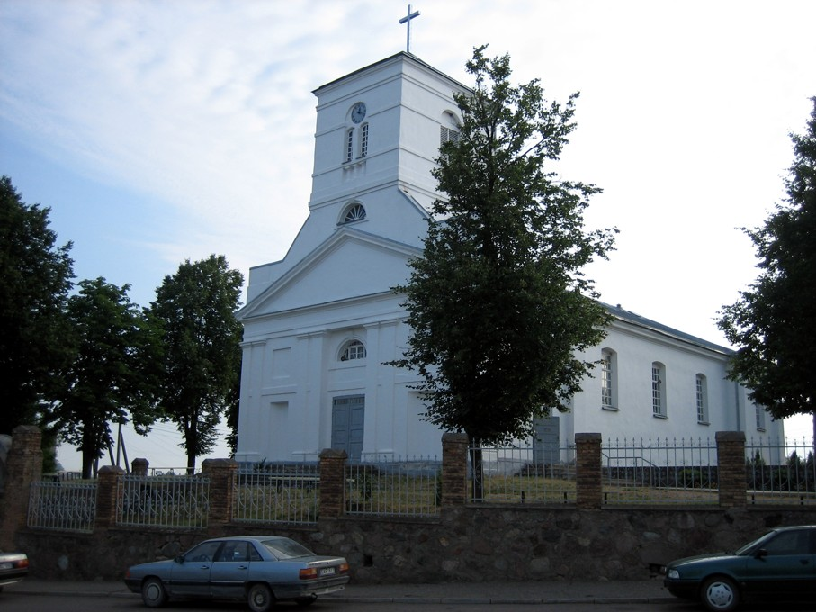 Church in Seirijai